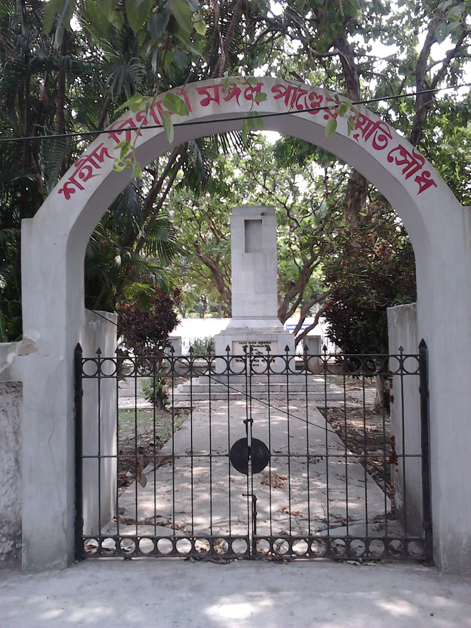 Photographed at Barrackpore Cantonment of North 24 Parganas, West bengal.